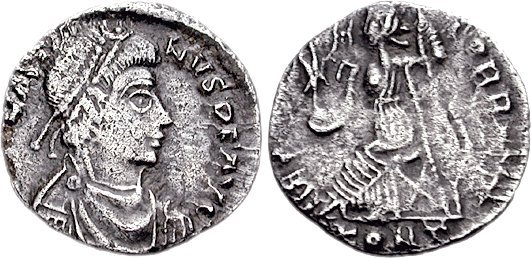 Sebastianus. Usurper, AD 412-413. AR Siliqua (1.37 g, 12h). Arelate (Arles) mint. [D N SE]BASTIA-NVS P F AVG, pearl-diademed, draped, and cuirassed bust right / RES[TITV]-TOR REIP, Roma seated left, holding Victory on globe in extended right hand, spear in left. Unpublished.